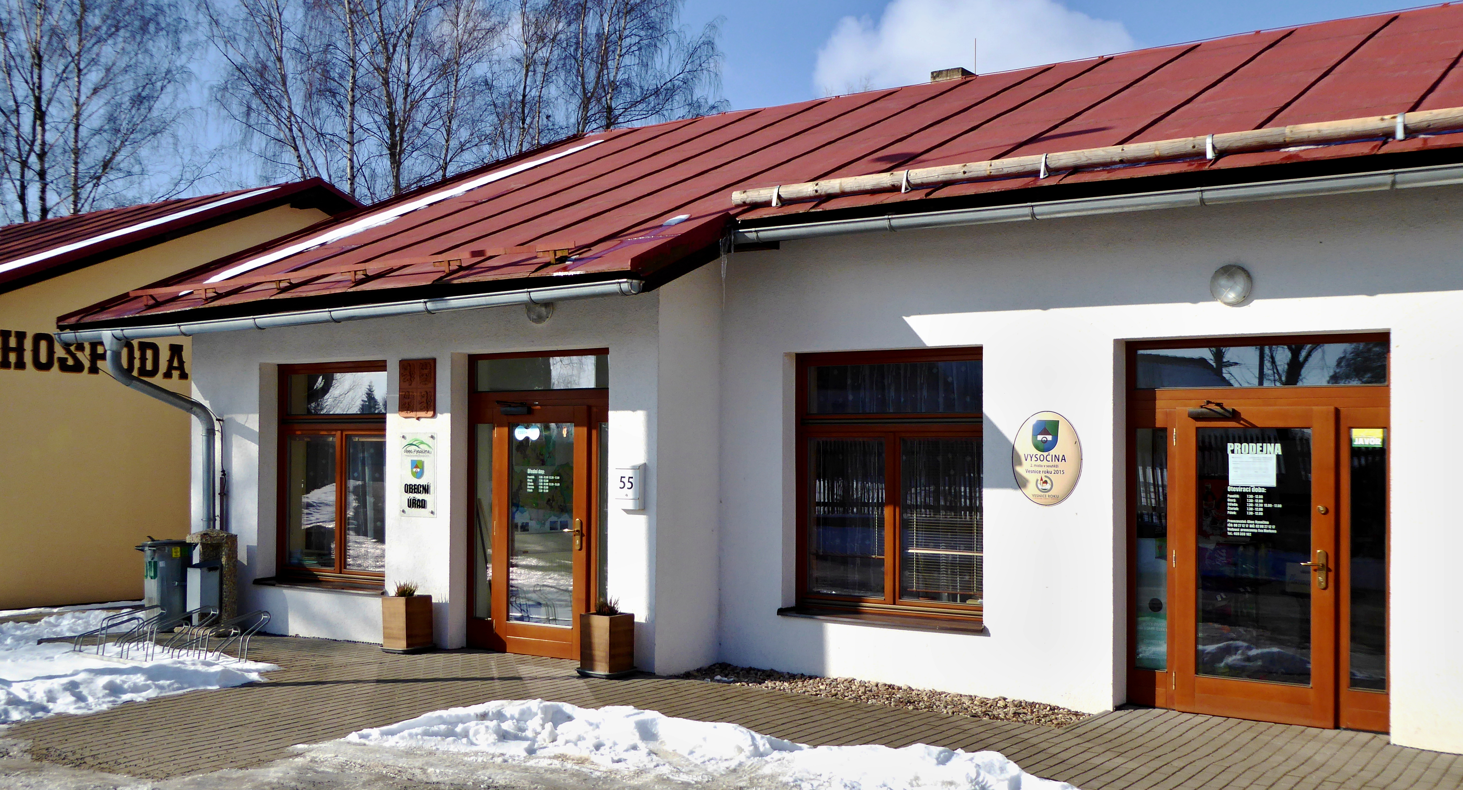 Municipal office "Vysočina" with the seat of "Dřevíkov" No.55 in the Chrudim District, belonging to the Pardubice Region in the territory of the Czech Republic. The village "Vysočina" was established with effect from 1 January 1961, were merged originally separate municipalities with names: "Možděnice, Rváčov, Svobodné Hamry". The settlement of "Dřevíkov" was since 1910 a part the village of "Svobodné Hamry". The municipality operates in a "Dřevíkov" also a shop, the neighboring object is a pub "Na Bouchalce". Photo location: Czechia, Pardubice Region, municipality Vysočina, hamlet of "Dřevíkov", "Stružinecká" knoll hill.